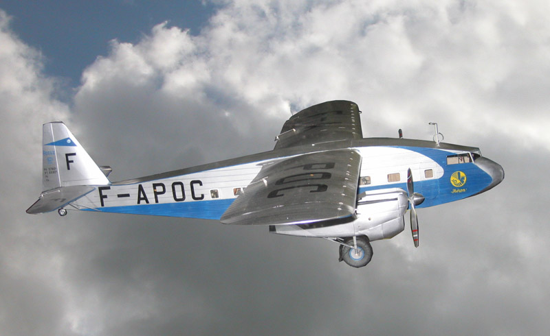 Model of Potez 62 "Héron" Air France aircraft